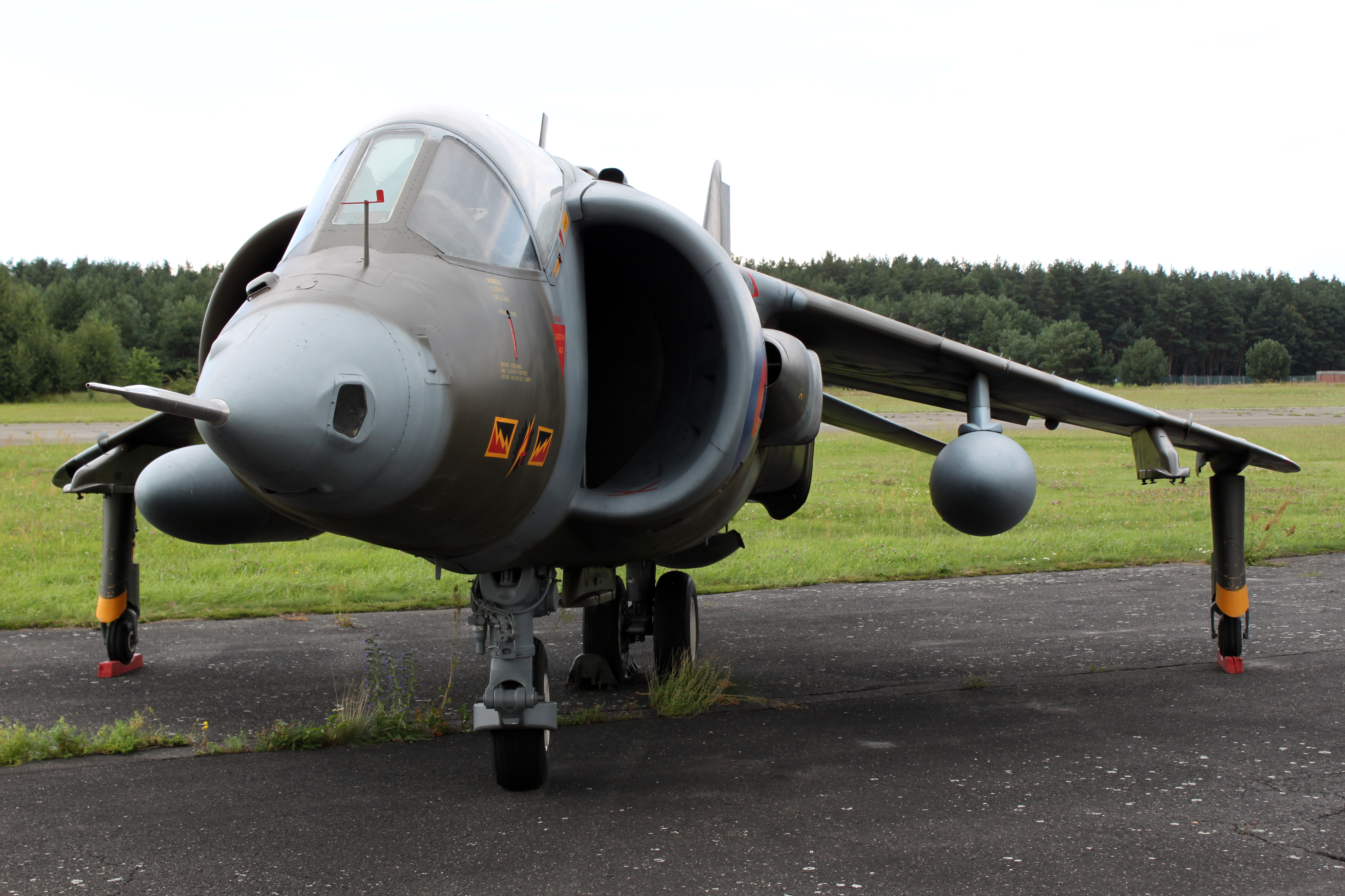 Ground attack and reconnaissance aircraft BAe (HS) Harrier GR Mk.1 (VTOL) in the Air Force Museum Berlin-Gatow